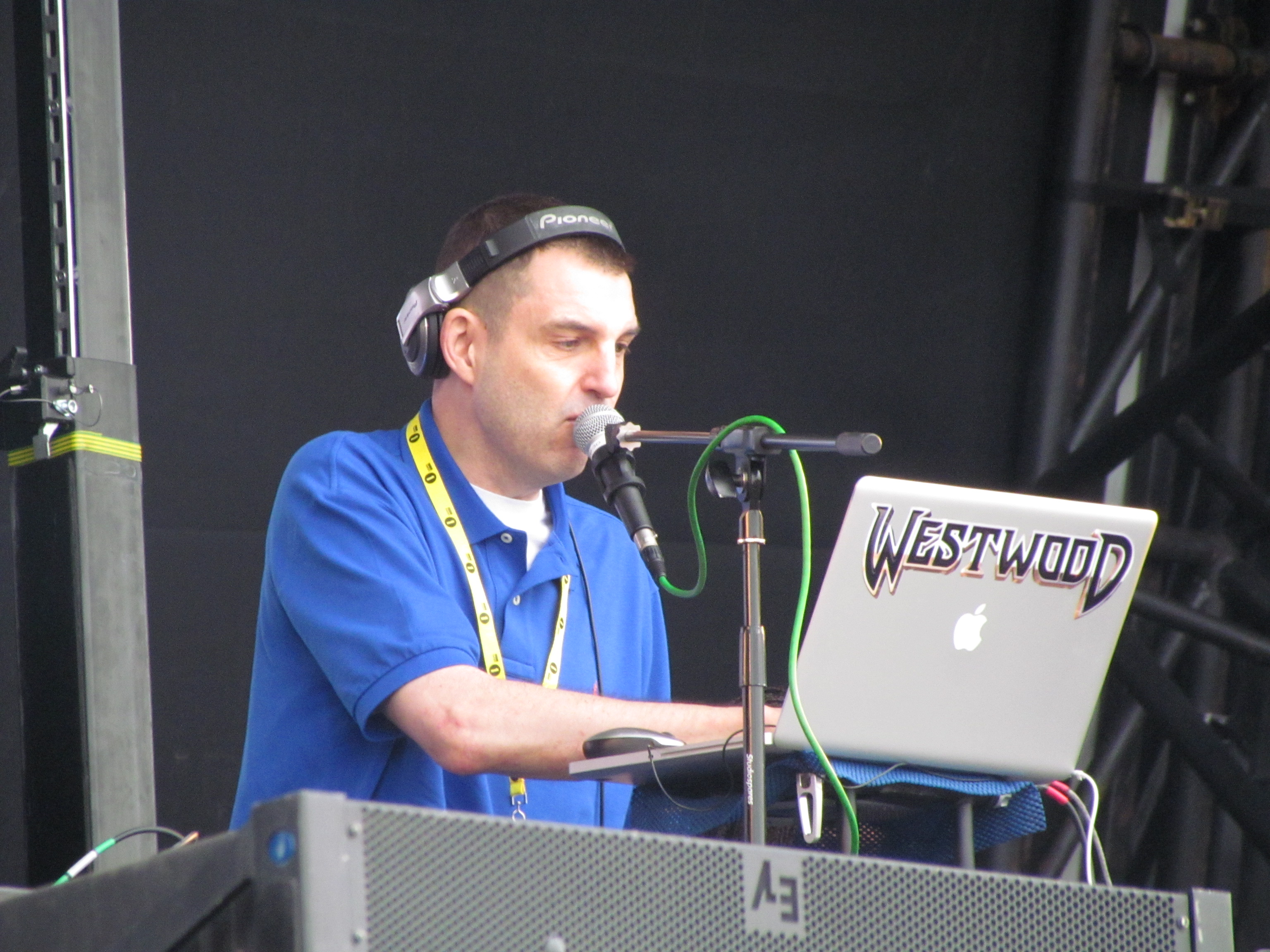 Tim Westwood performing on June 23, 2012 in London, England.